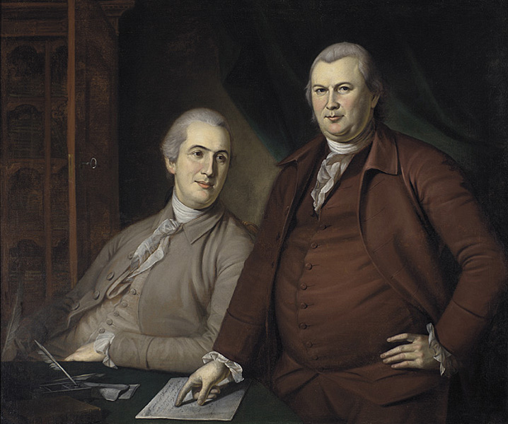 Continental Congressmen Robert Morris and Gouverneur Morris (no relation). This double portrait, commissioned by Robert Morris, honors his collaboration with Gouverneur Morris in establishing financial security for the new nation. As Superintendent of Finance during the Revolutionary War, Robert Morris restored the national credit with his personal fortune and helped to found the Bank of North America. In later years, financial problems led to his imprisonment for bankruptcy. Gouverneur Morris, a lawyer, went on to serve as Minister to France, Pennsylvania Academy of Fine Arts.